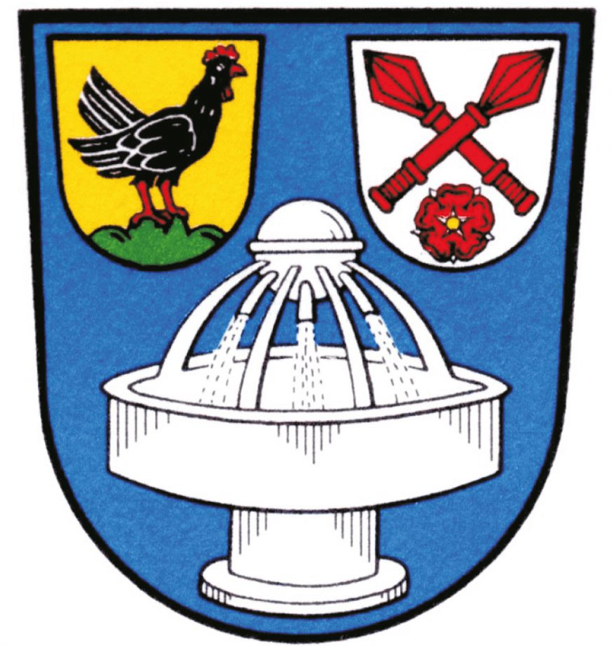 Coat of Arms of Bad Bocklet